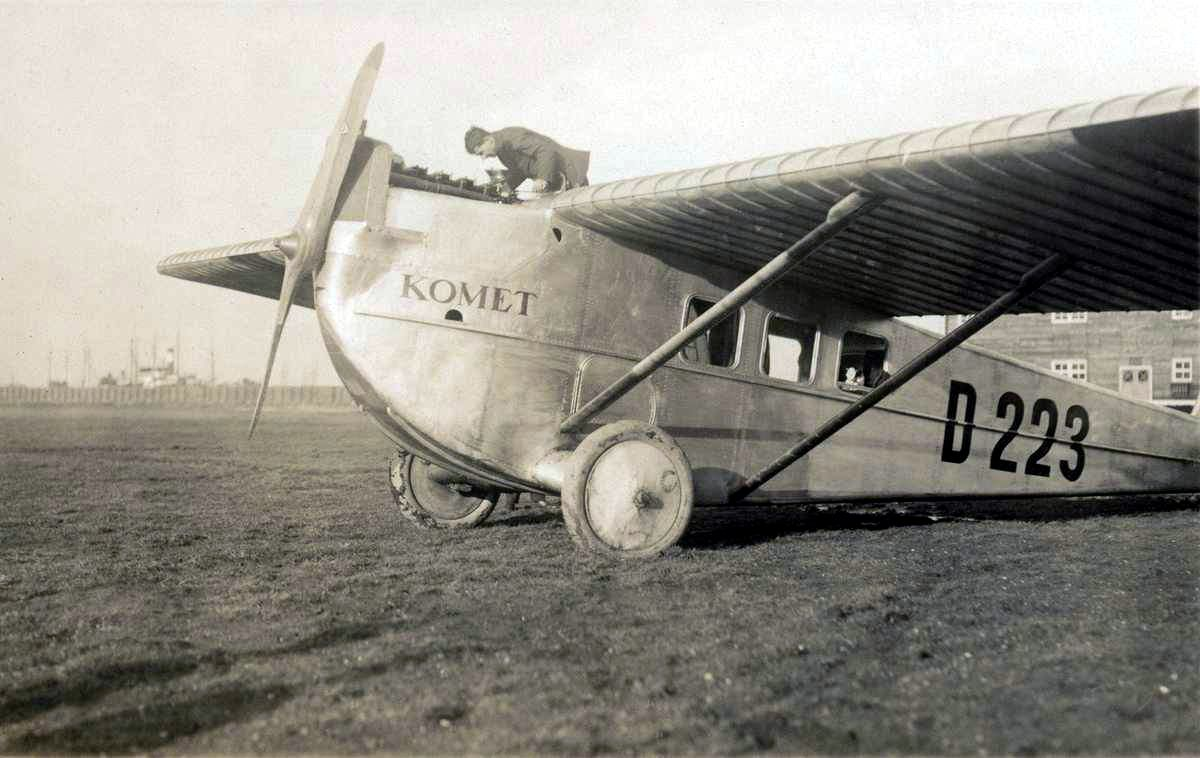 Dornier Komet II stopping temporarily at Waalhaven Airport, Rotterdam, on 30 December, 1922, during the first ever flight by a German airliner from Berlin to London. The flight to London was completed the following day.